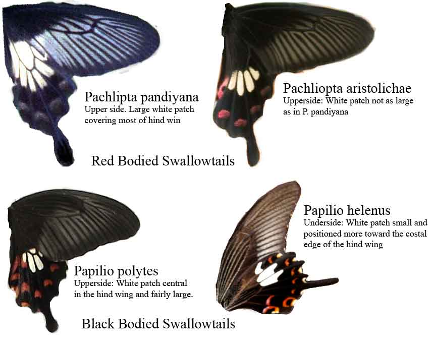 Wing images of Atrophaneura pandiyana (= Papilio pandiyana), Atrophaneura pandiyana (= P. aristolochiae), P. polytes, P. helenus. To show differences between each.